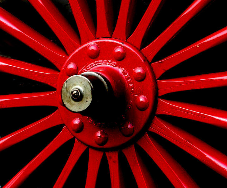 1905 Fire Wagon wheel